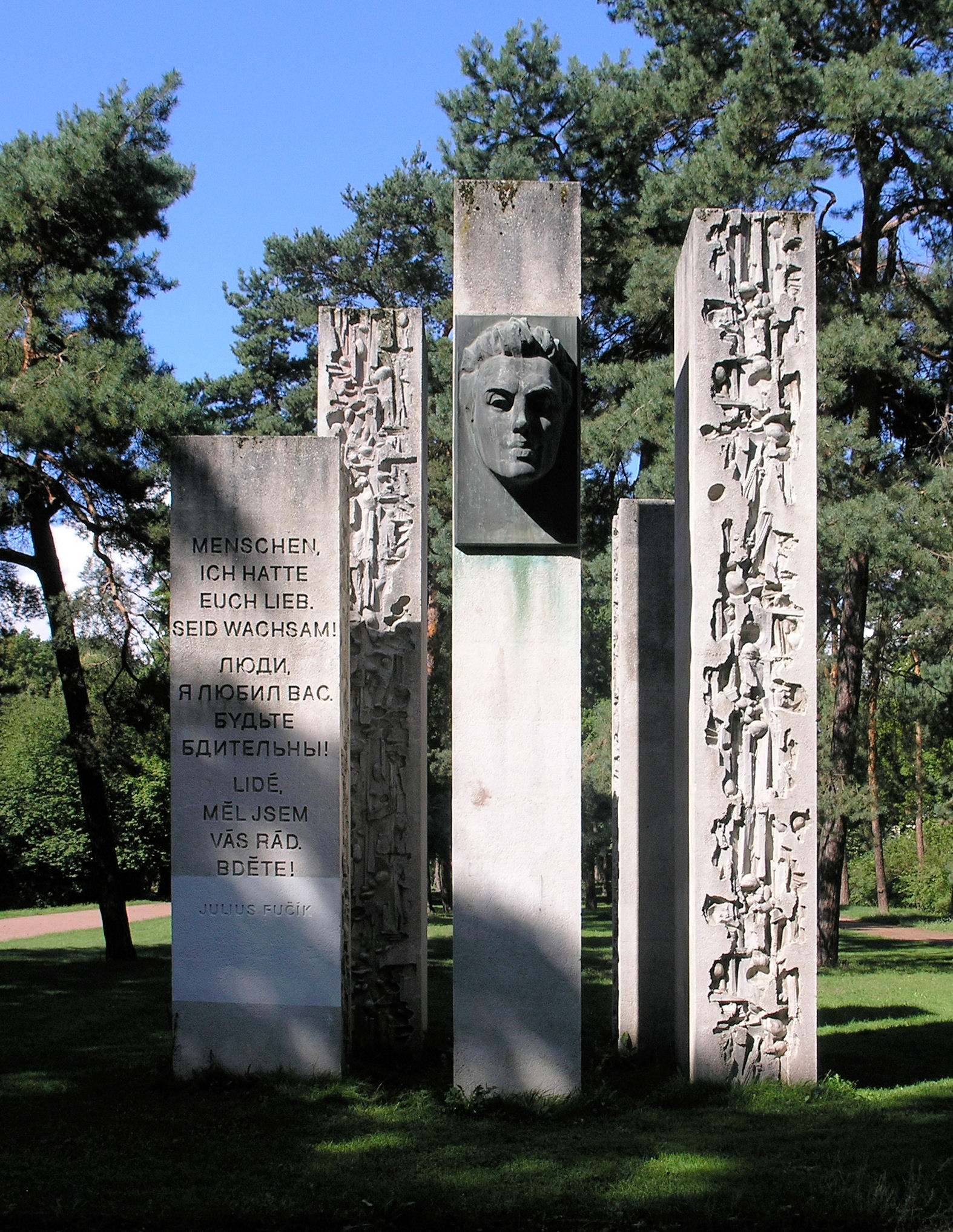 Memorial, Julius Fučík von Zdeněk Němeček, 1974, Cottastraße, Berlin-Niederschönhausen, Germany